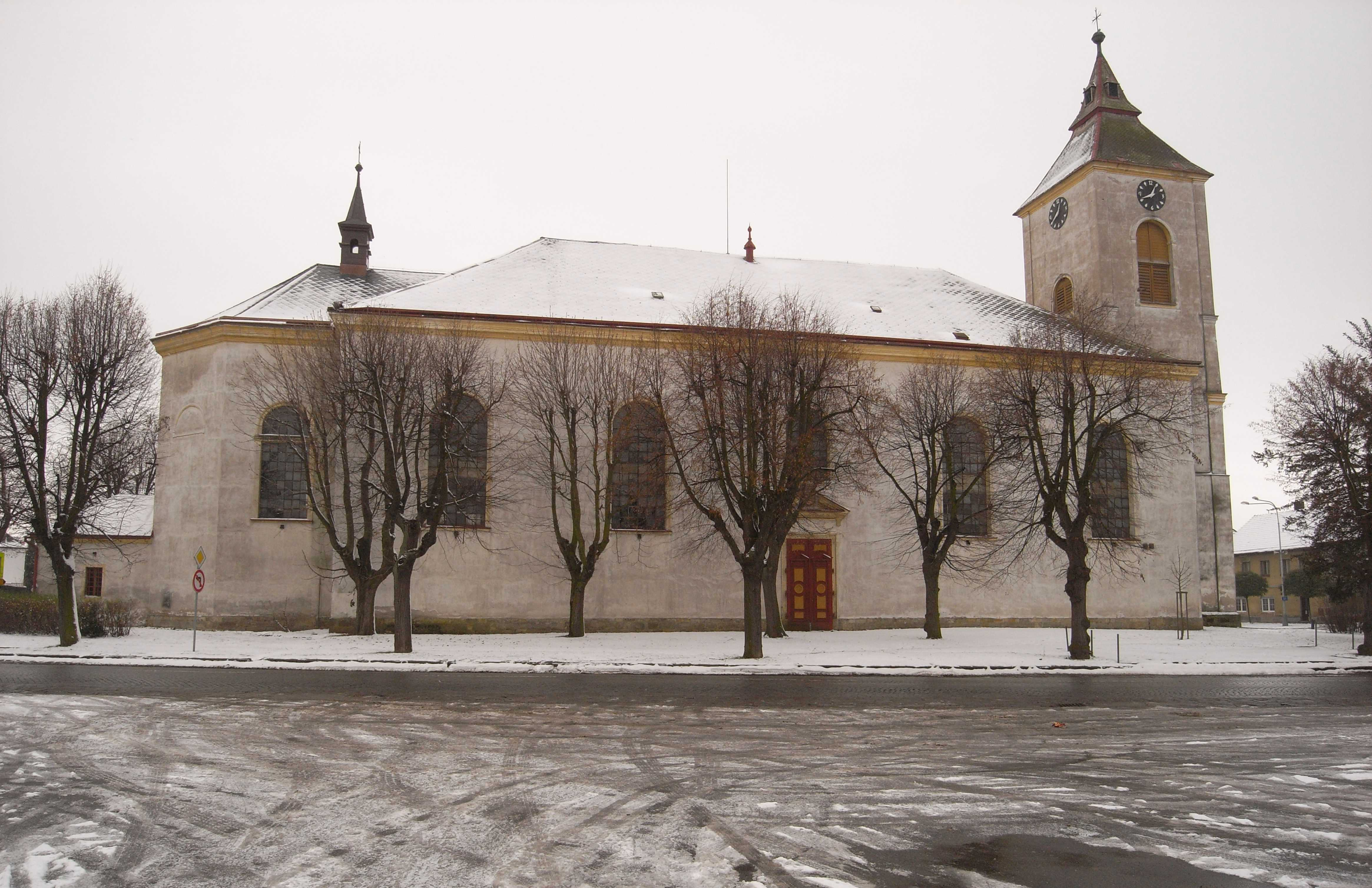 Nechanice, village church (Czech Republic)